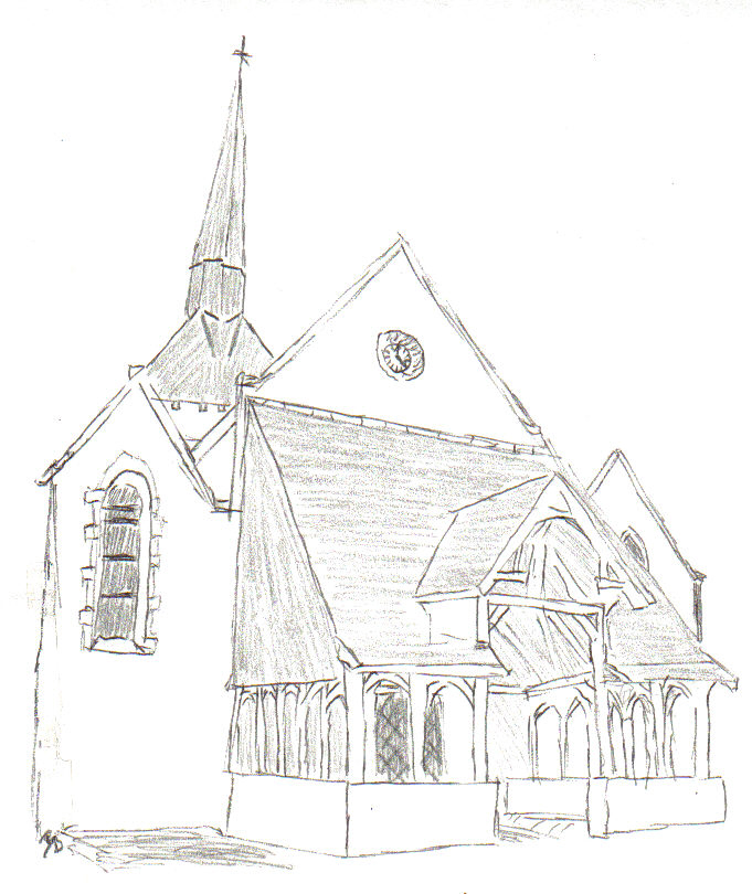 st Gervais and St Protais' church in Saint-Gervais-la-Forêt